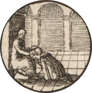 I cropped this from the image to the right. I release any rights I gained from cropping it into the public domain. Illustration of each of the 28 articles of the Augsburg Confession by Wenceslas Hollar.